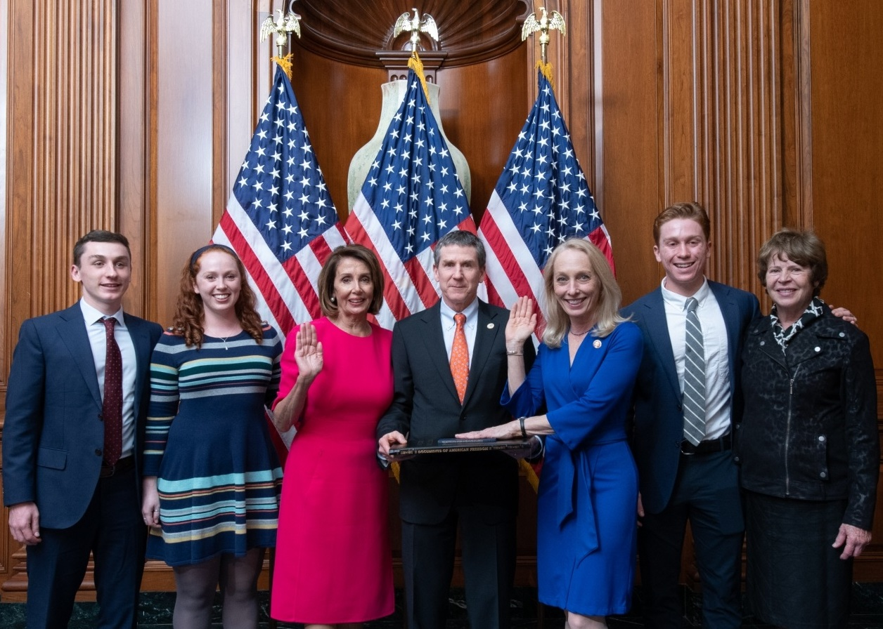 US Representative Mary Gay Scanlon (D-Pennsylvania) is sworn into office by House Speaker Nancy Pelosi on January 3, 2019